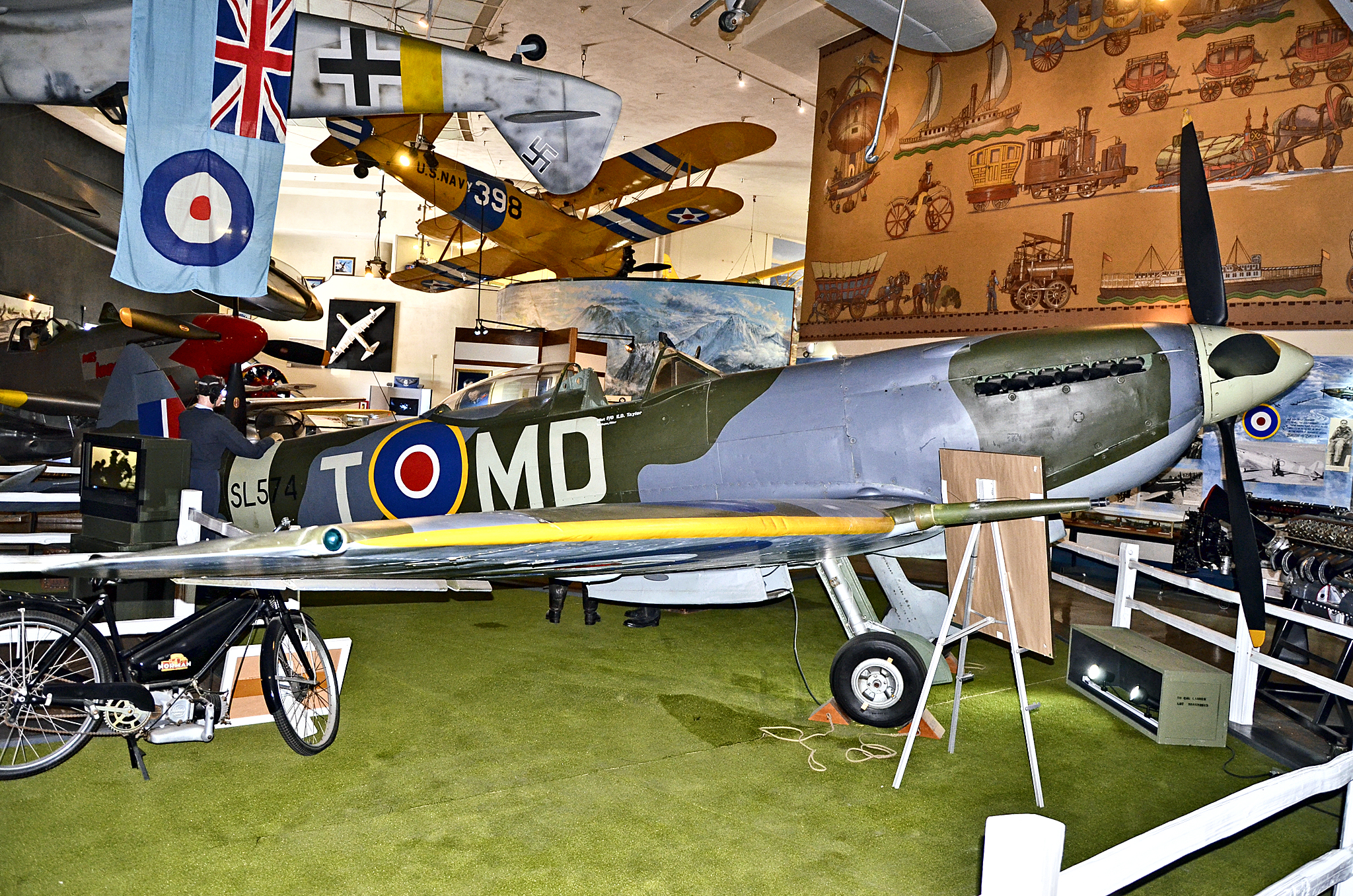 TDelCoro July 29, 2013